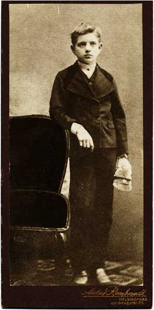 The Finnish composer Jean Sibelius as a school boy